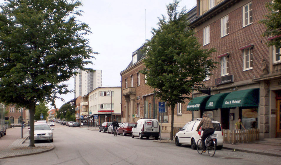 Höganäs 2010